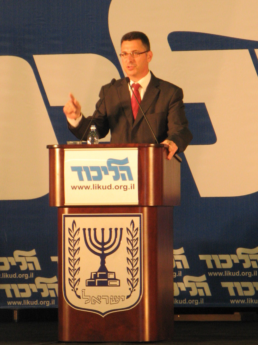 Gideon Saar speaking at Merkaz Likud